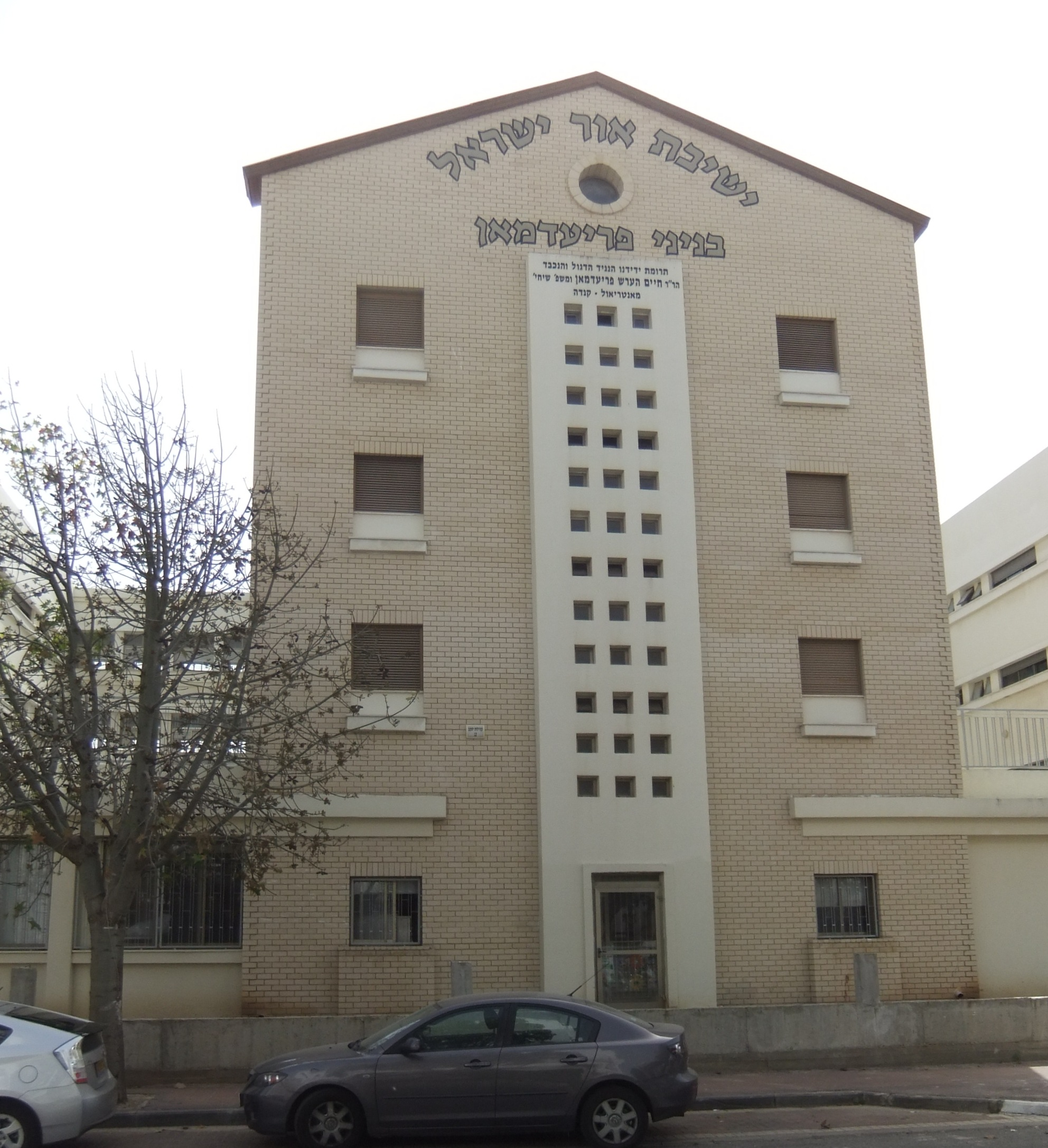 Ohr Yisrael Petach Tikva dormitory